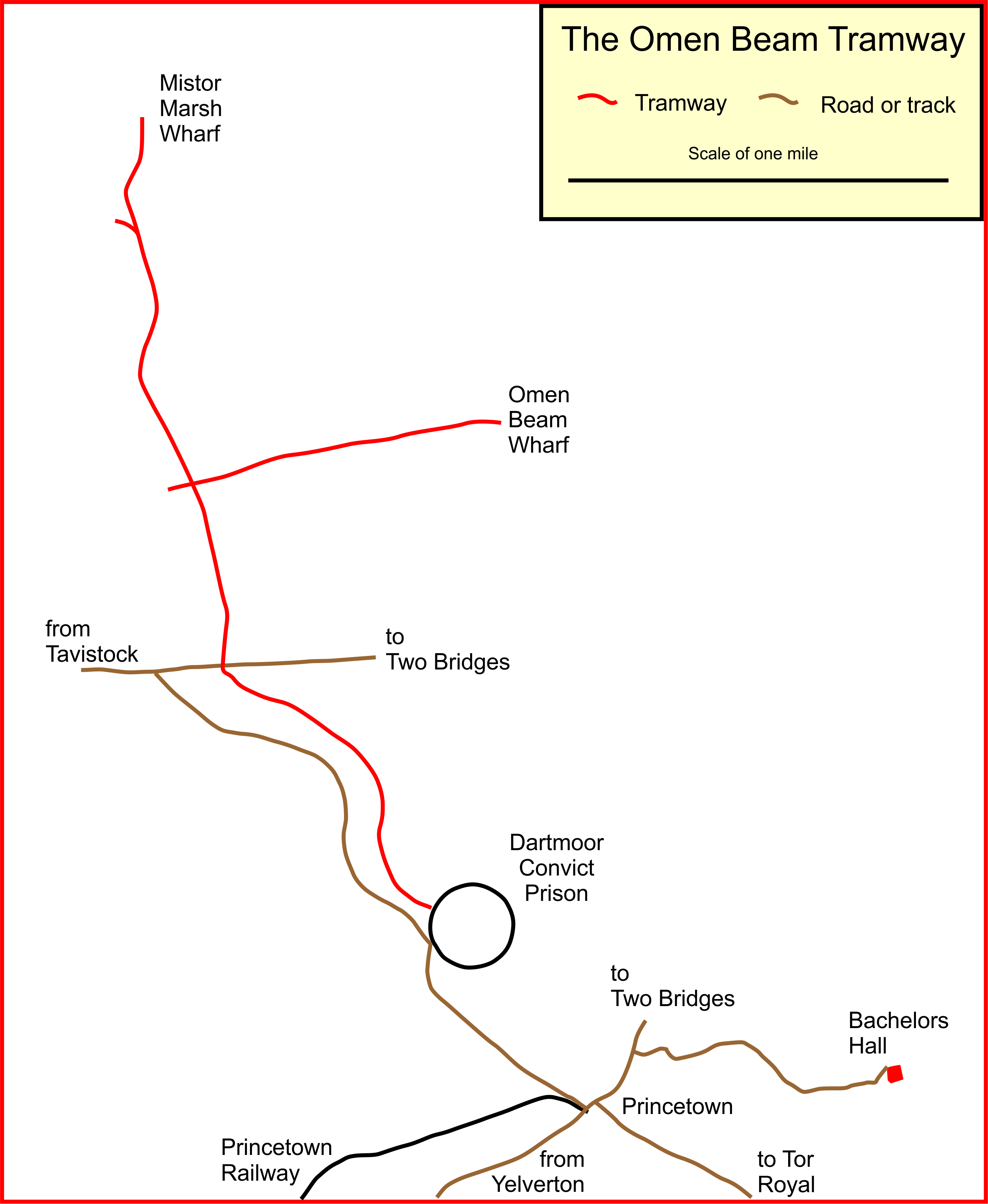 Map of Omen Beam Tramway at Princetown Devon England